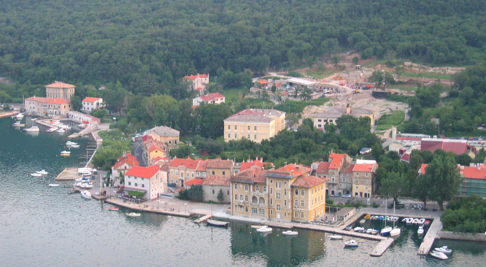 Bakar, coastal town in north Adriatic (Croatia)